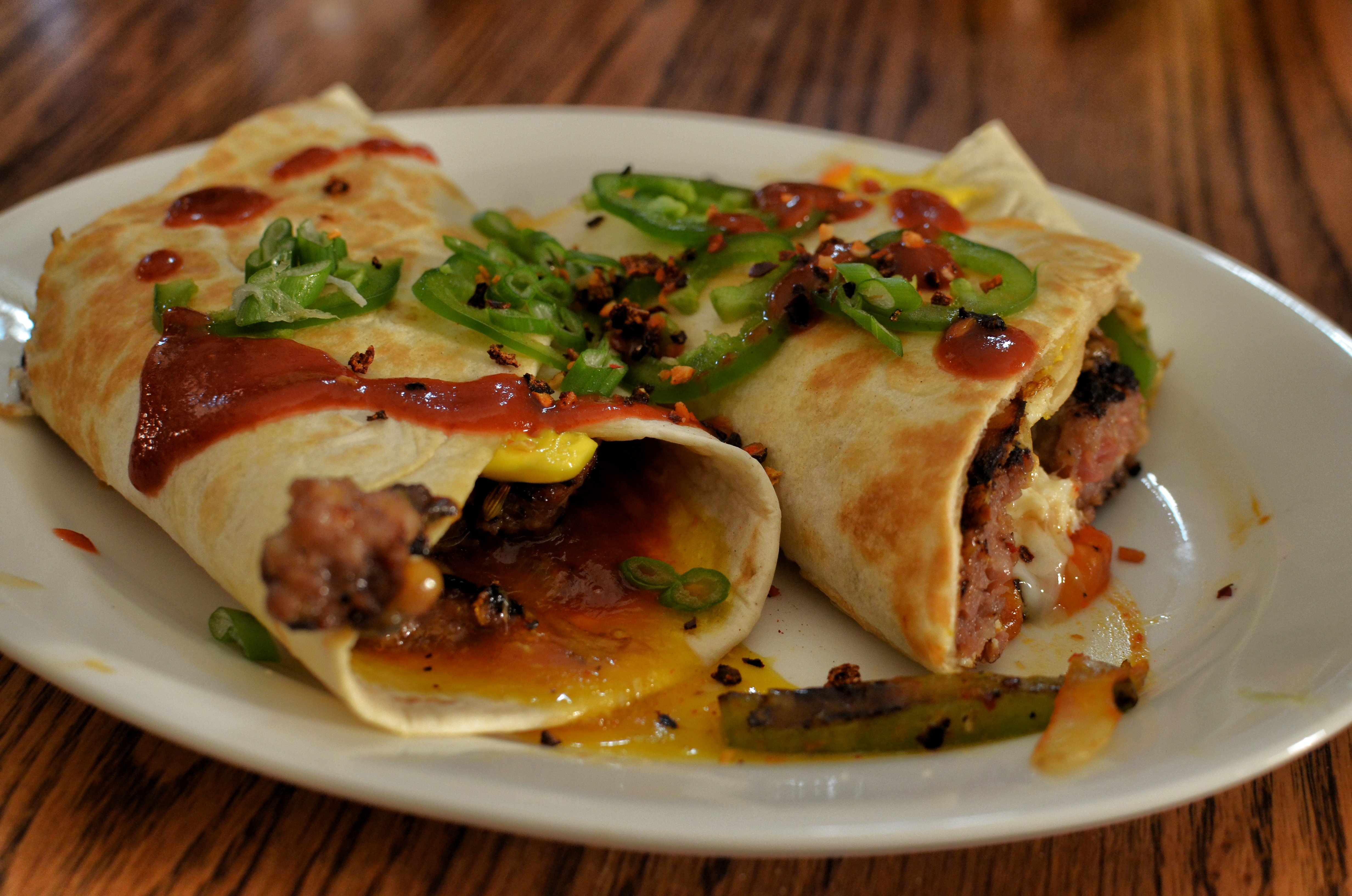 Mmm... breakfast burrito